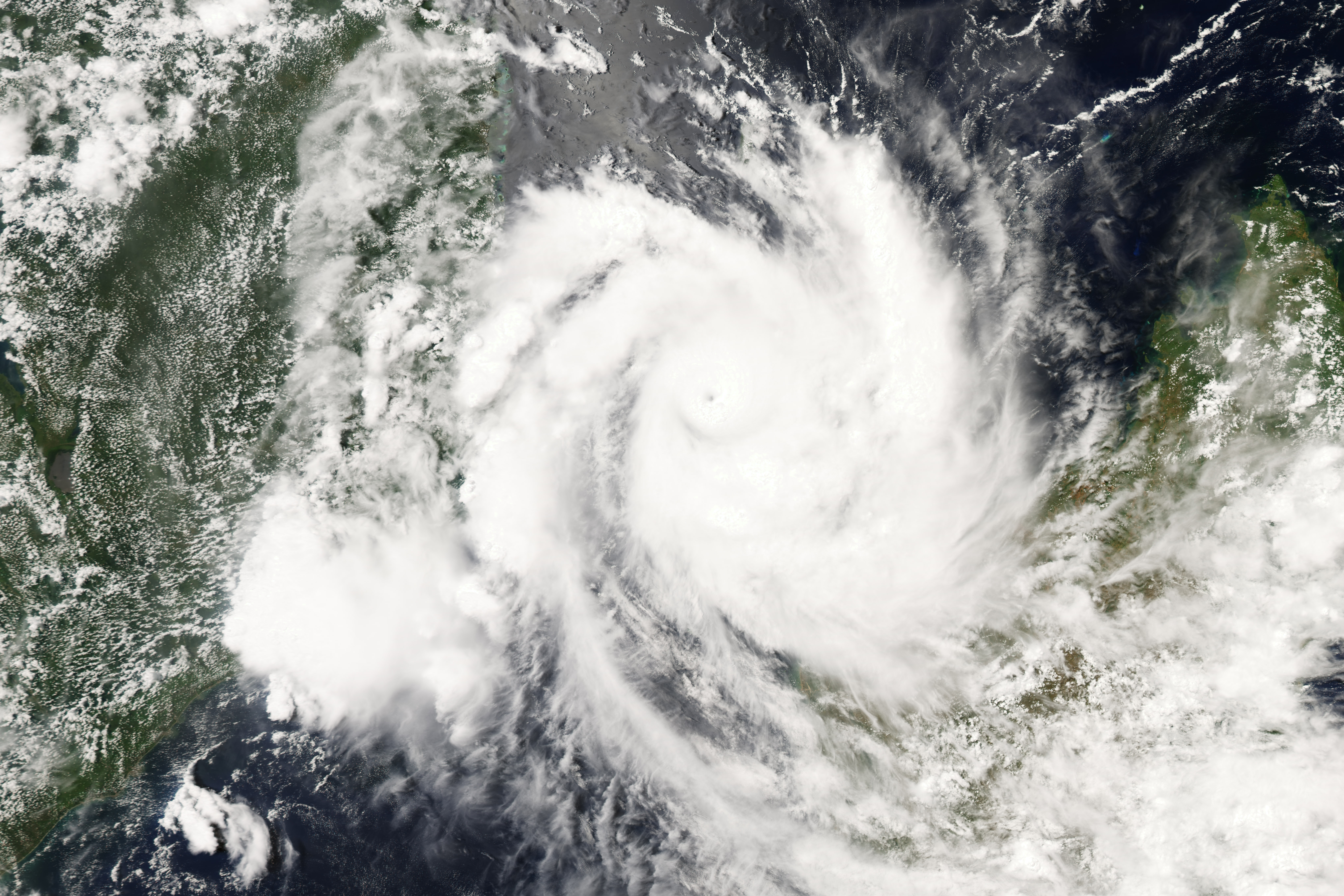 Tropical Cyclone Jokwe seen from Aqua satellite at 1045Z Mar 07, 2008